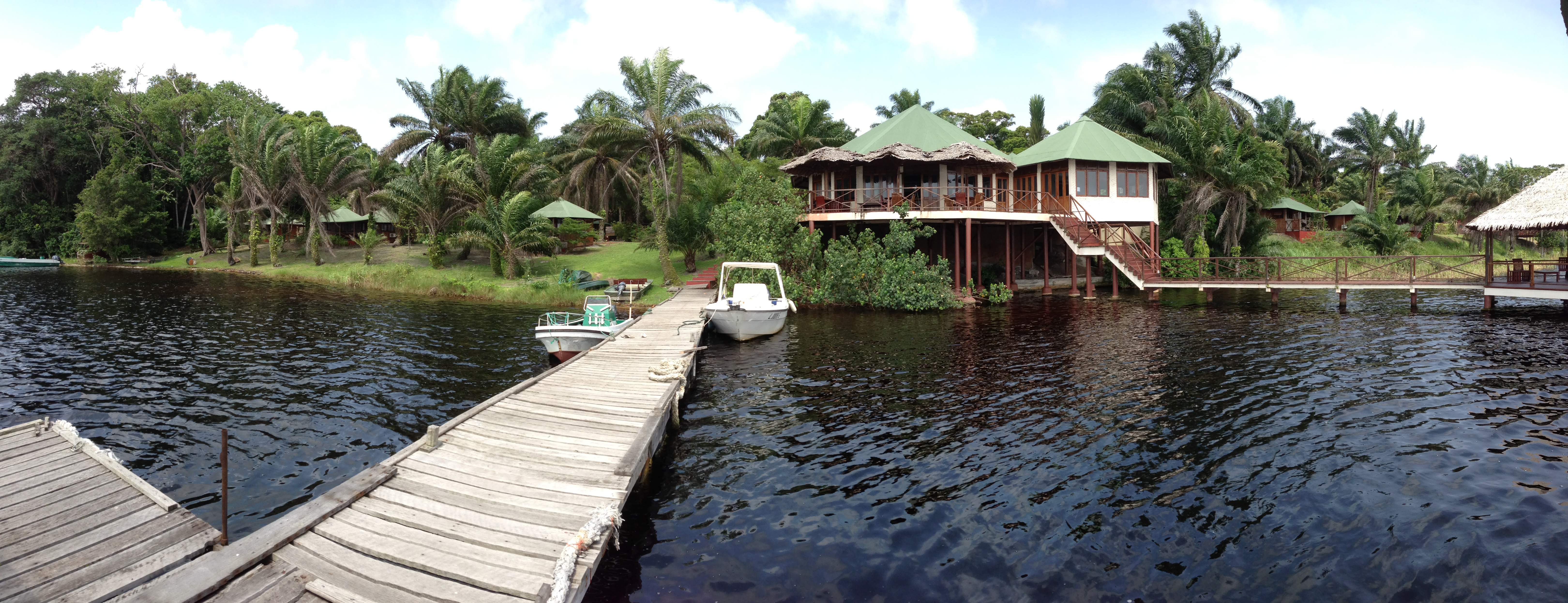 Gabon Loango National Park View of Lodge from the small boat that transports you across the water to the park proper for tours.